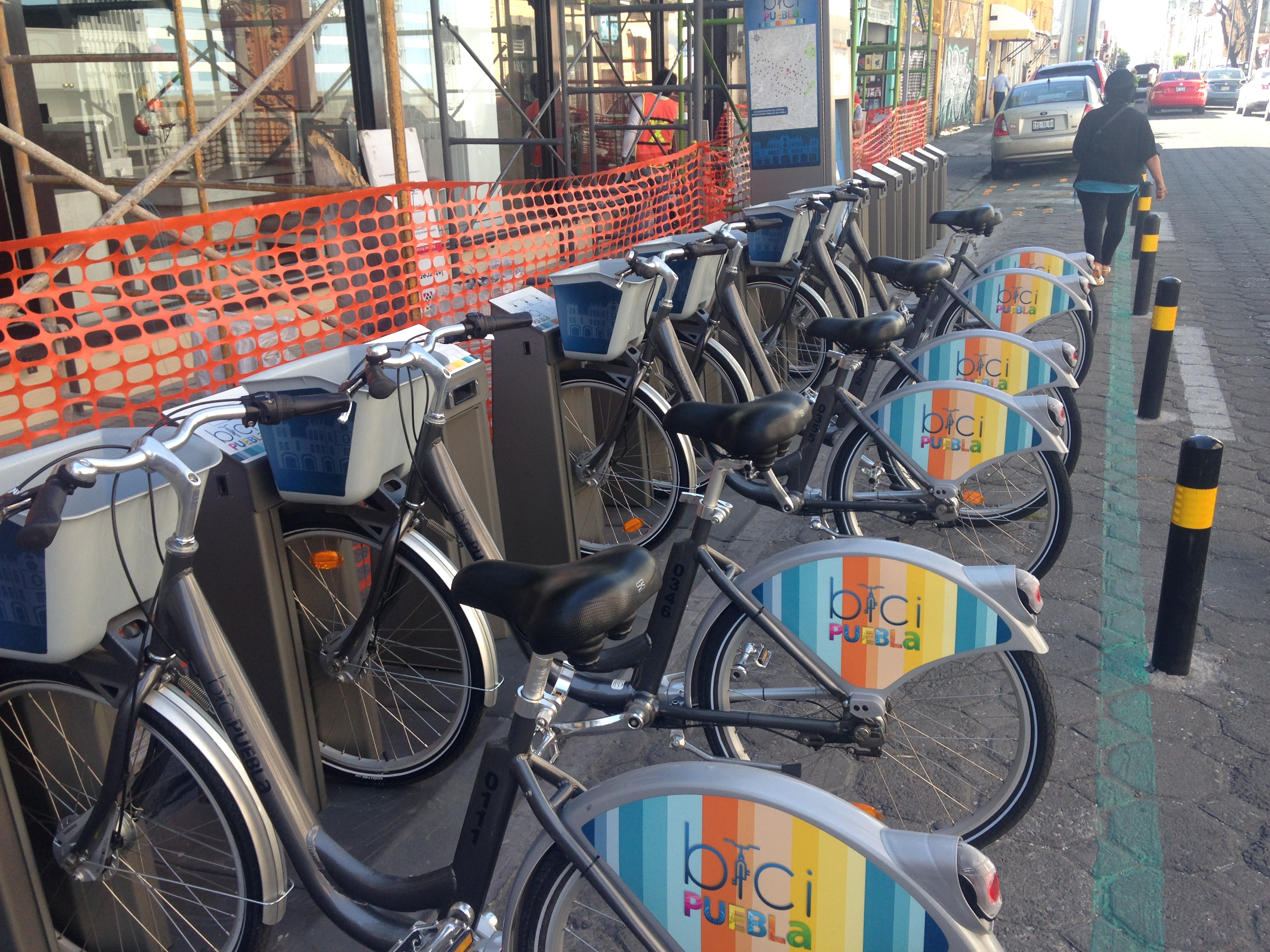 Bicipuebla public bikes rack at Puebla City, Puebla.